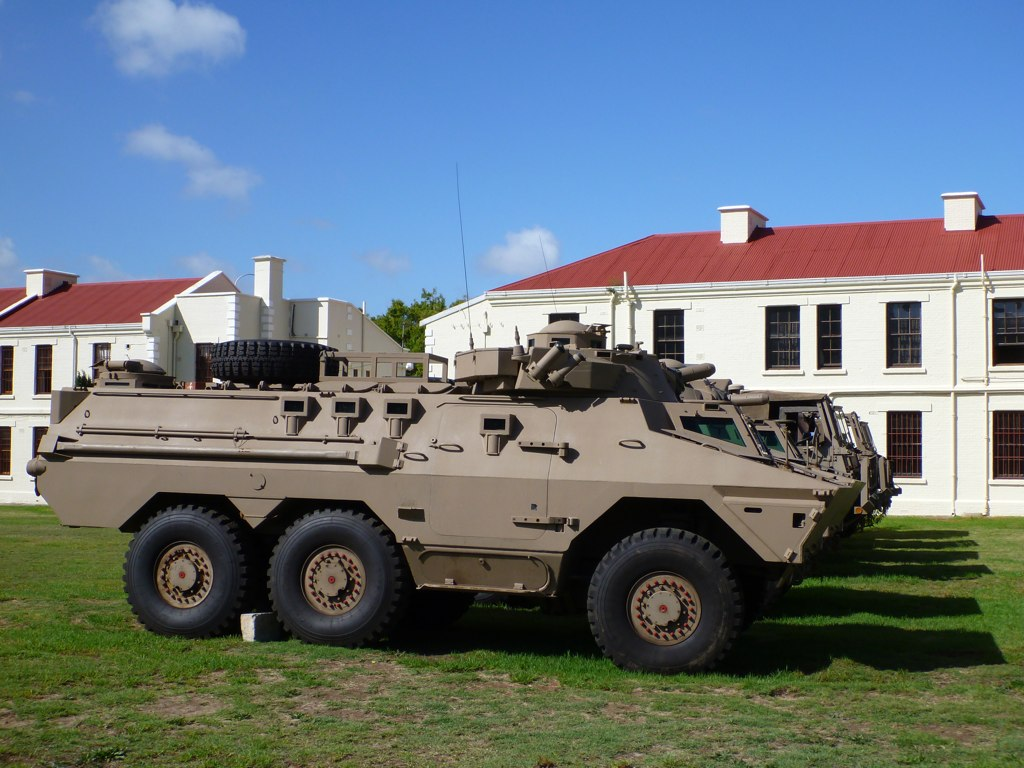 Ratel at the Castle, Cape Town